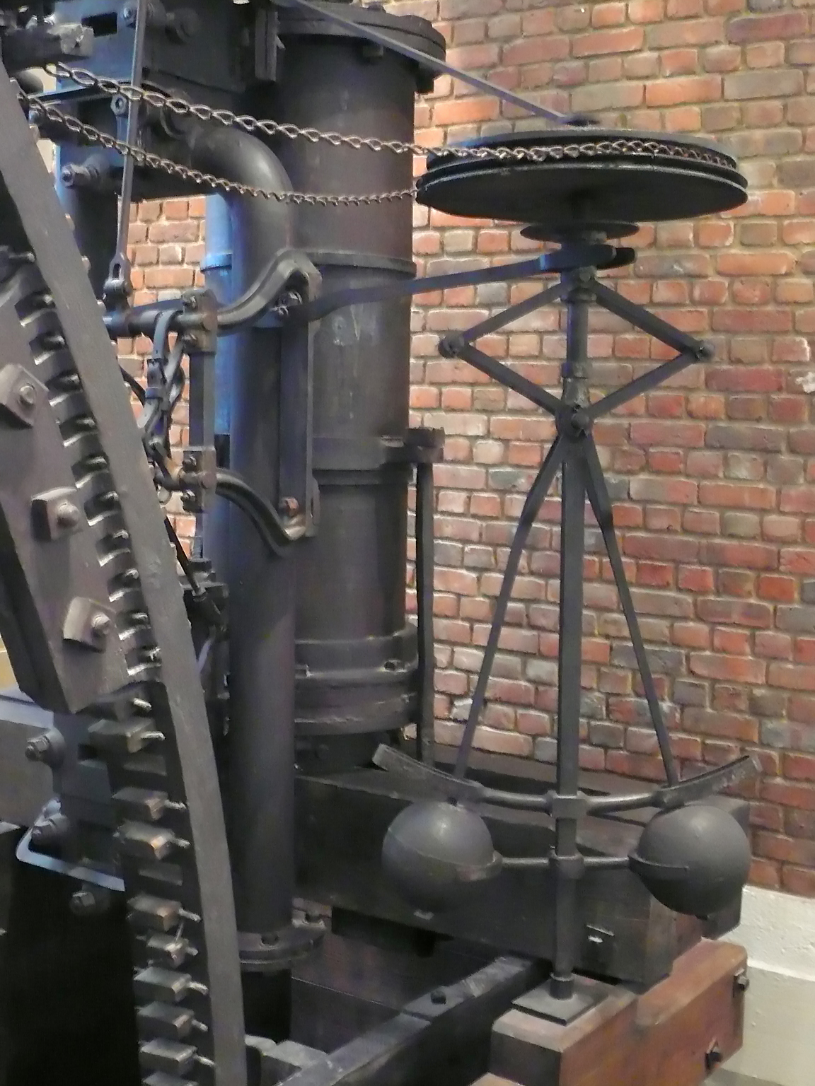 Watt-type centrifugal governor (1788) on a Boulton and Watt steam engine at the Science Museum, London.